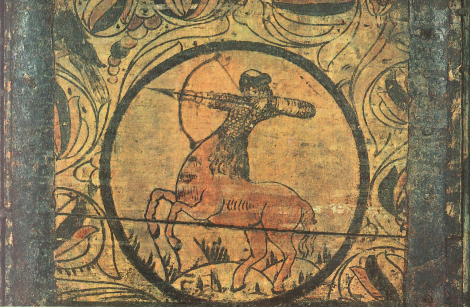 Polkan (a centaur-like creature) shooting an arrow. Folk painting on a chest lid. Velikiy Ustyug, Russia, XVIIth century.